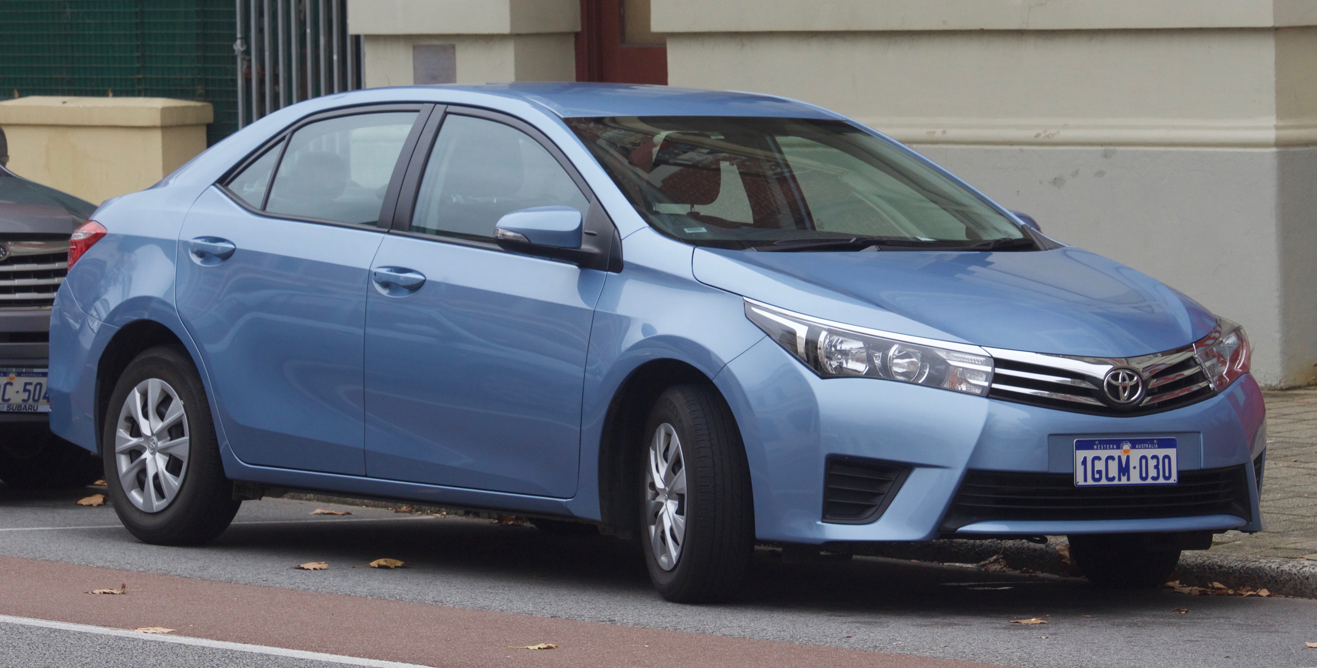 2016 Toyota Corolla (ZRE172R) Ascent sedan. Photographed in Fremantle, Western Australia, Australia.